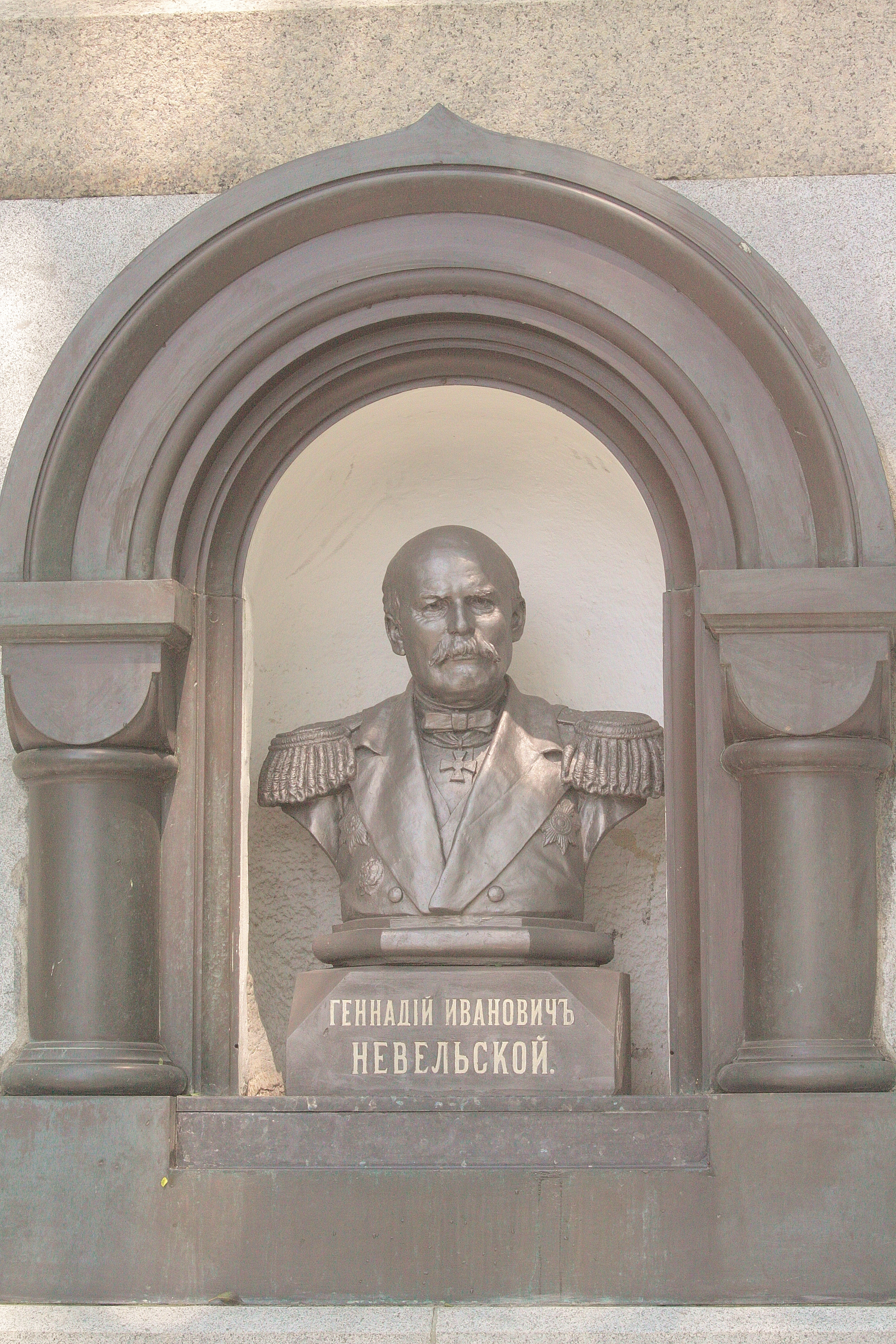 Памятник Г.И. Невельскому